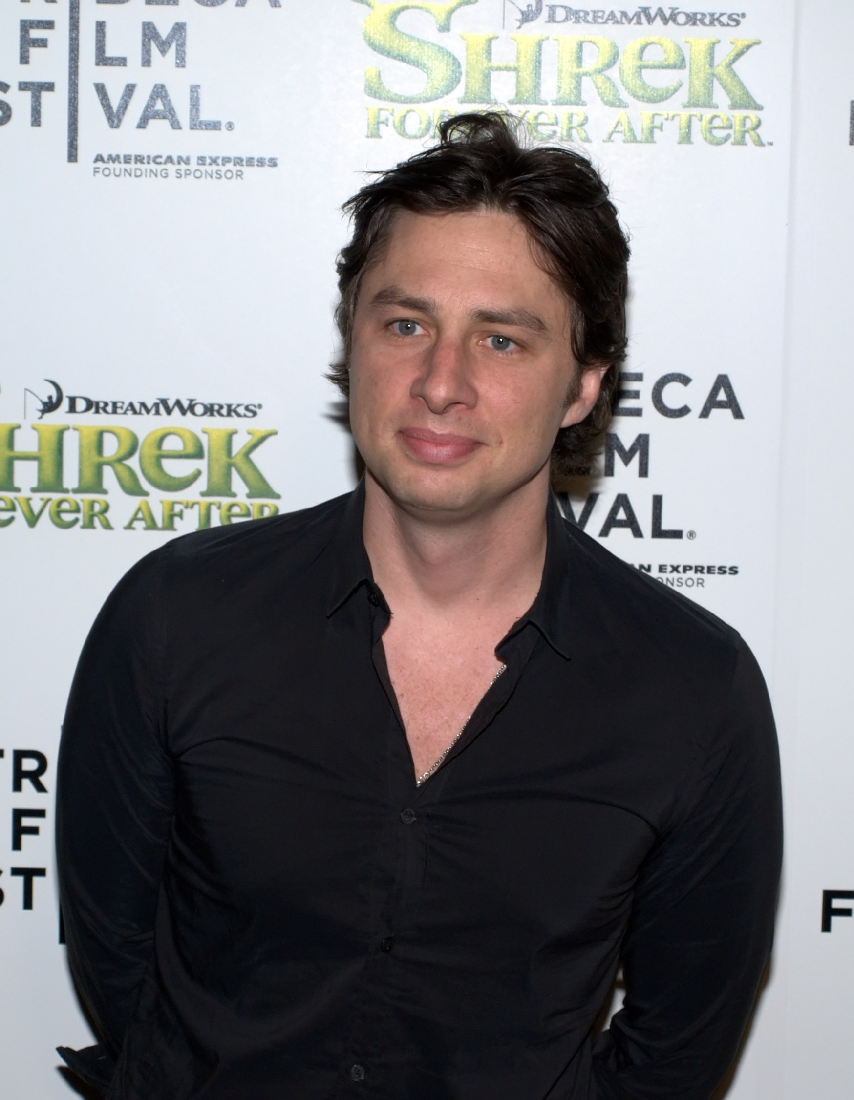 Zach Braff at Tribeca Film Festival 2010